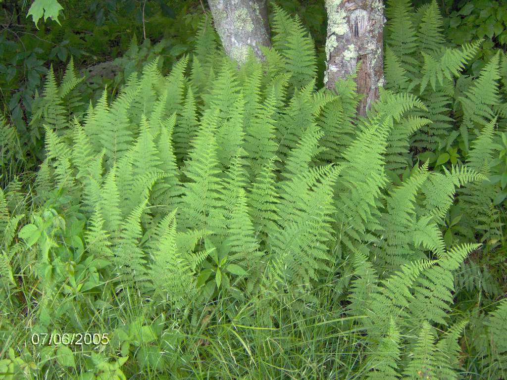 Dennstaedtia punctilobula, taken July 26, 2005, in Otter Creek Wilderness, West Virginia, by John Knouse